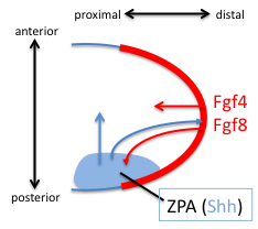 Early signals that define the anterior-posterior and proximal-distal axis in vertebrate limb development